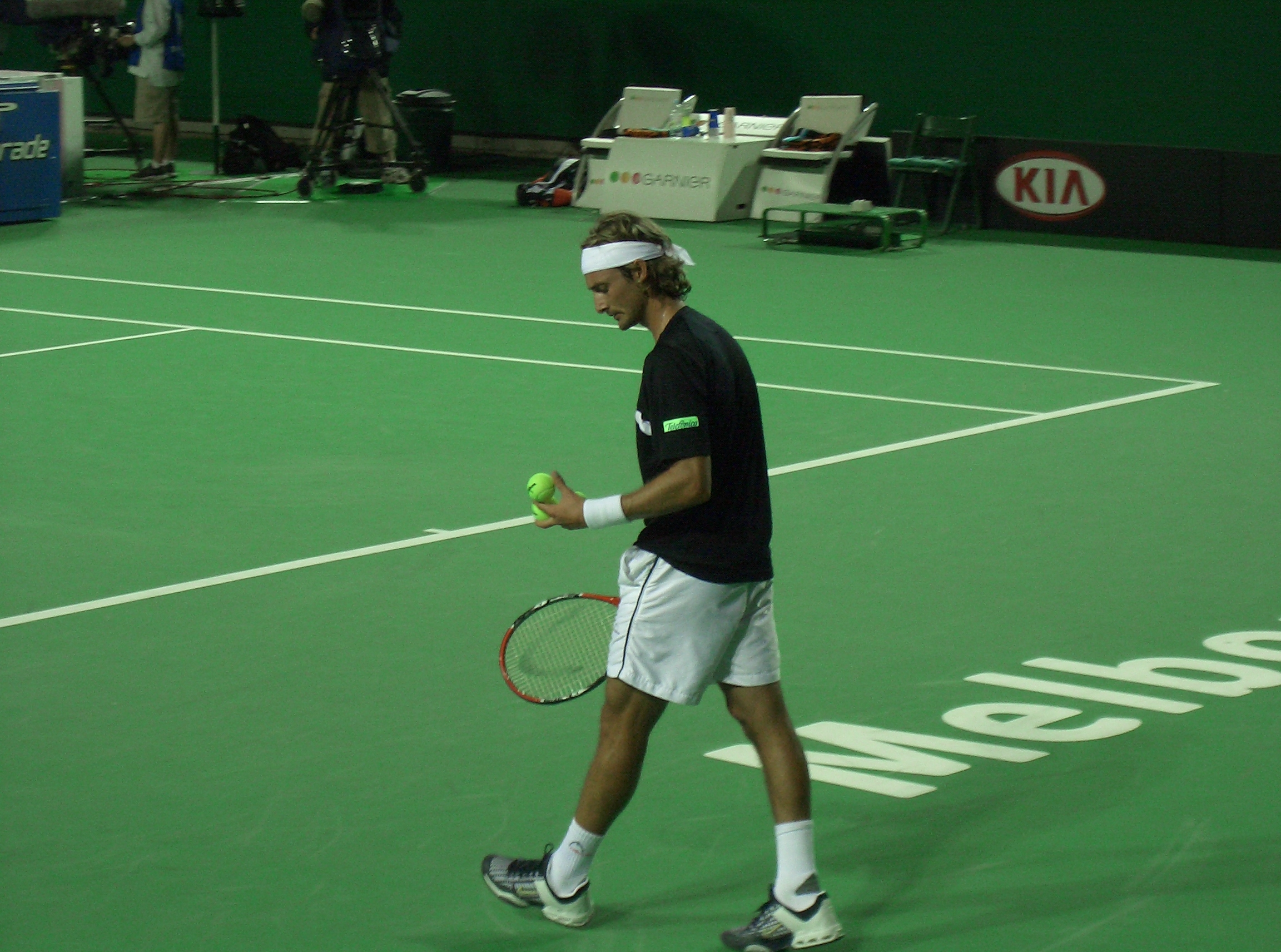 Juan Carlos Ferrero at the 2006 Australian Open